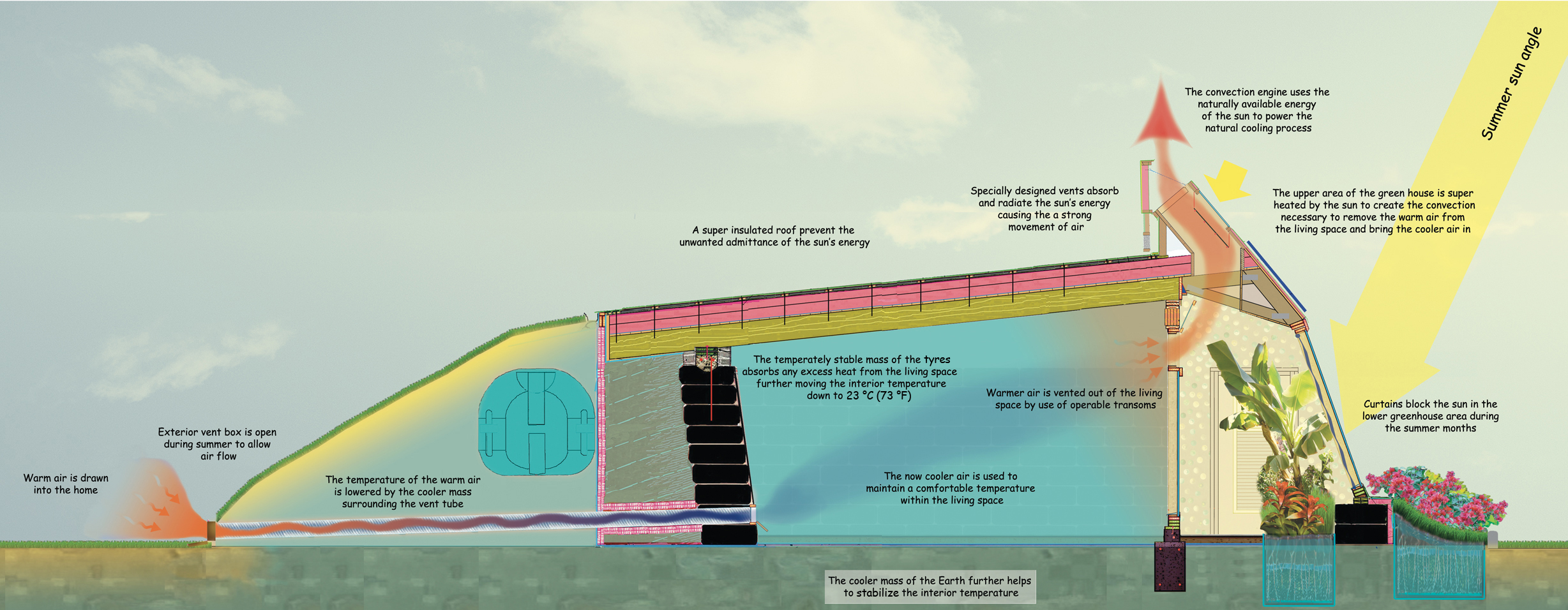 Convection concepts within an Earthship